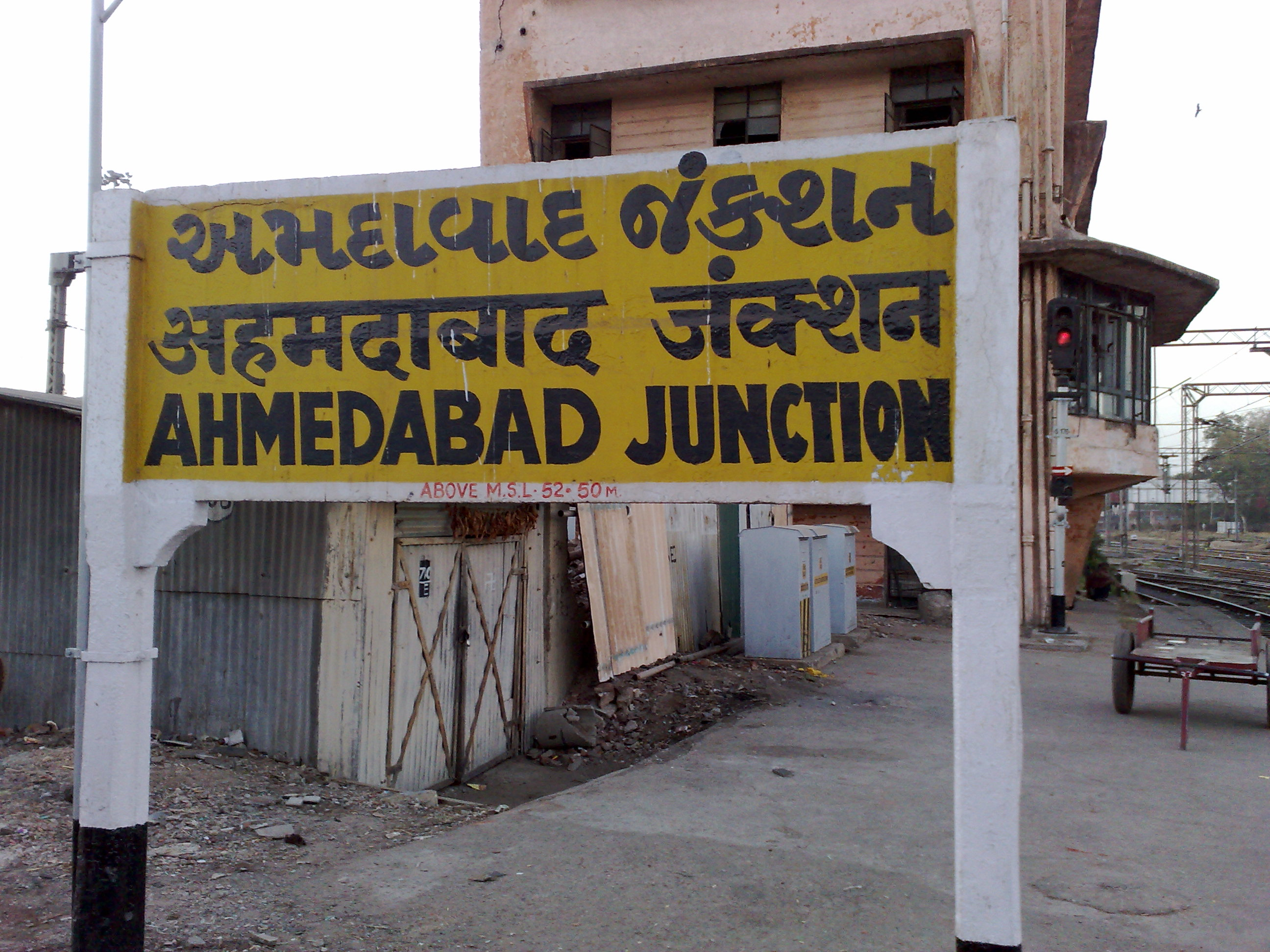 Ahmedabad junction railway station, Gujarat